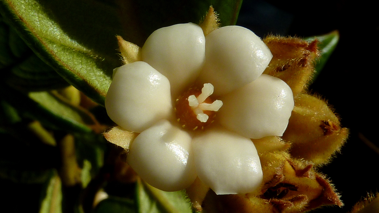 6-merous flower.